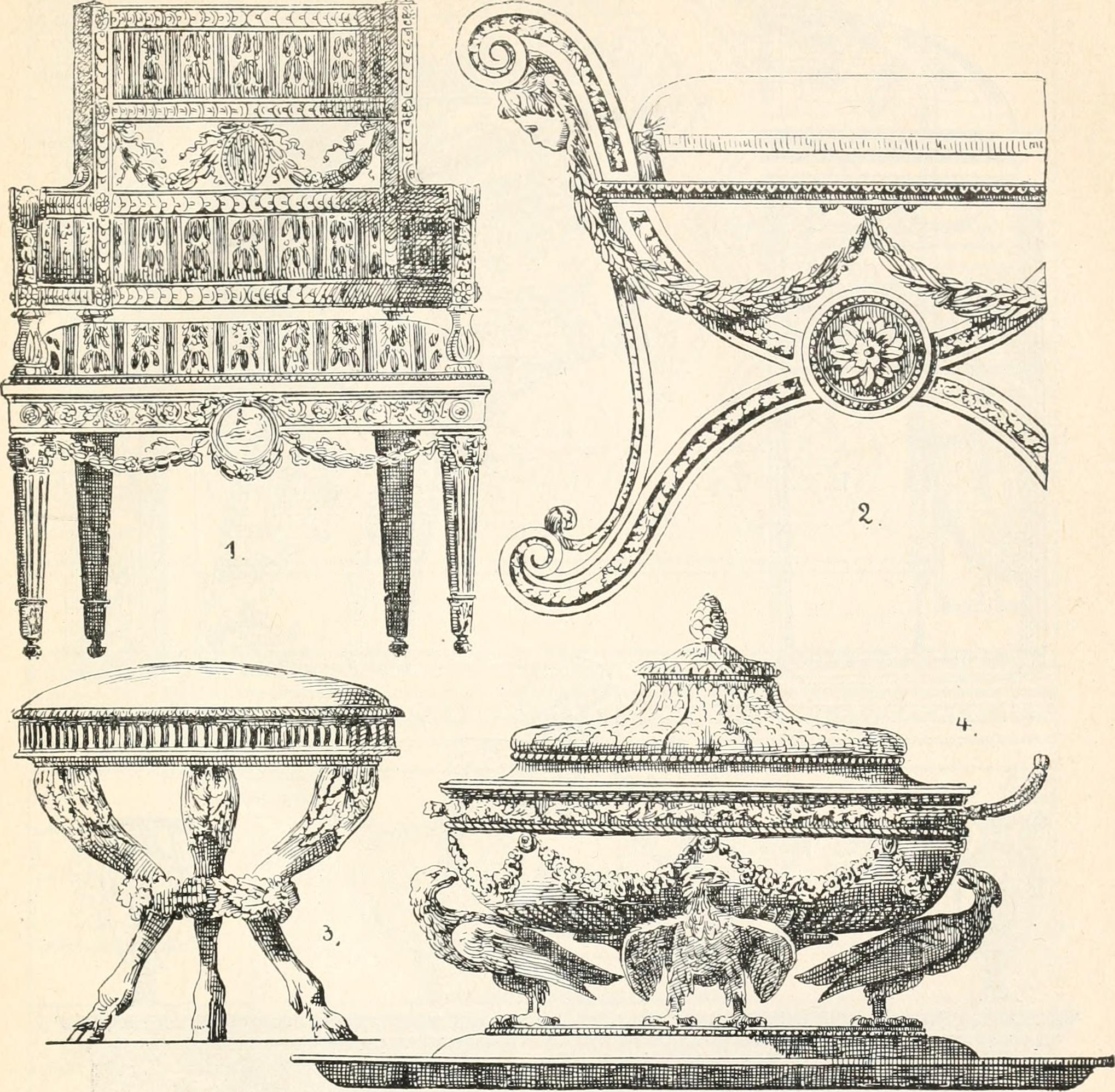 Title: Styles of ornament, exhibited in designs, and arranged in historical order, with descriptive text. A handbook for architects, designers, painters, sculptors, wood-carvers, chasers, modellers, cabinet-makers and artistic locksmiths as well as also for technical schools, libraries and private study Year: 1910 (1910s) Authors: Speltz, Alexander O'Conor, David Subjects: Decoration and ornament Publisher: New York : E. Weyhe Text Appearing Before Image: e was taken up in Italy later than in France, the country ofits chief development on the other hand, it lasted much longer, being retained until thethirties, when Guiseppe Borsato became its chief exponent, his work being however, inferiorto that of Percier and Fontaine. Plate 387. Fig. 1, and 5. Sofa and arm-chair in Directory Style by Guiseppe Soli (Hirth).2. Sofa for the Milan cathedral, by Qiocondo Albertolli (SchoyJ.„ 3. Stool in Directory Style, by Albertolli (Hirth).„ 4. Perfuming censer in Empire Style, by Albertolli, Milan 1790 (Hirth). Work done from designs by Borsato. (After Percier et Fontaine, Recueil de Decorations int^rieures avec des supplements par Joseph Borsato.) Plate 388. Fig. 1. Internal decoration in the Imperial Palace in Venice.„ 2. Ceiling painting, carried out in the year 1817 for Count Albriggi in Venice.3. Mantel piece in the Royal Imperial Palace in Venice. Plate 387. EMPIRE ORNAMENT IN ITALY. 607 .HjV.allU ^U ilvltMlli ■,,;,\U,I I;,.(;UII1;;;(;U Text Appearing After Image: '